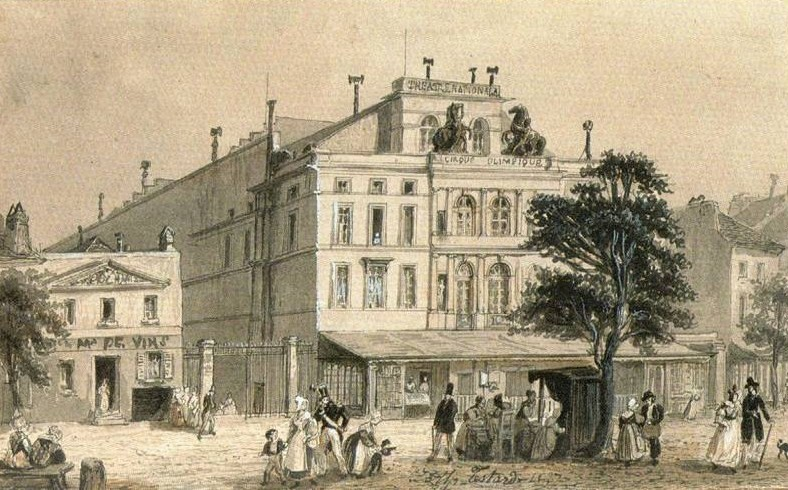 Theâtre national. Cirque Olympique by Jacques-Alphonse Testard, 1837. Ink and gouache.